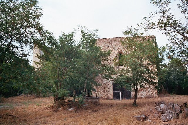 Templar preceptory Mas-Déu